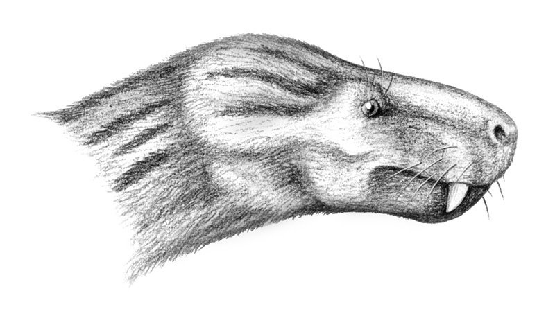 Charassognathus gracilis, a basal Permian cynodont